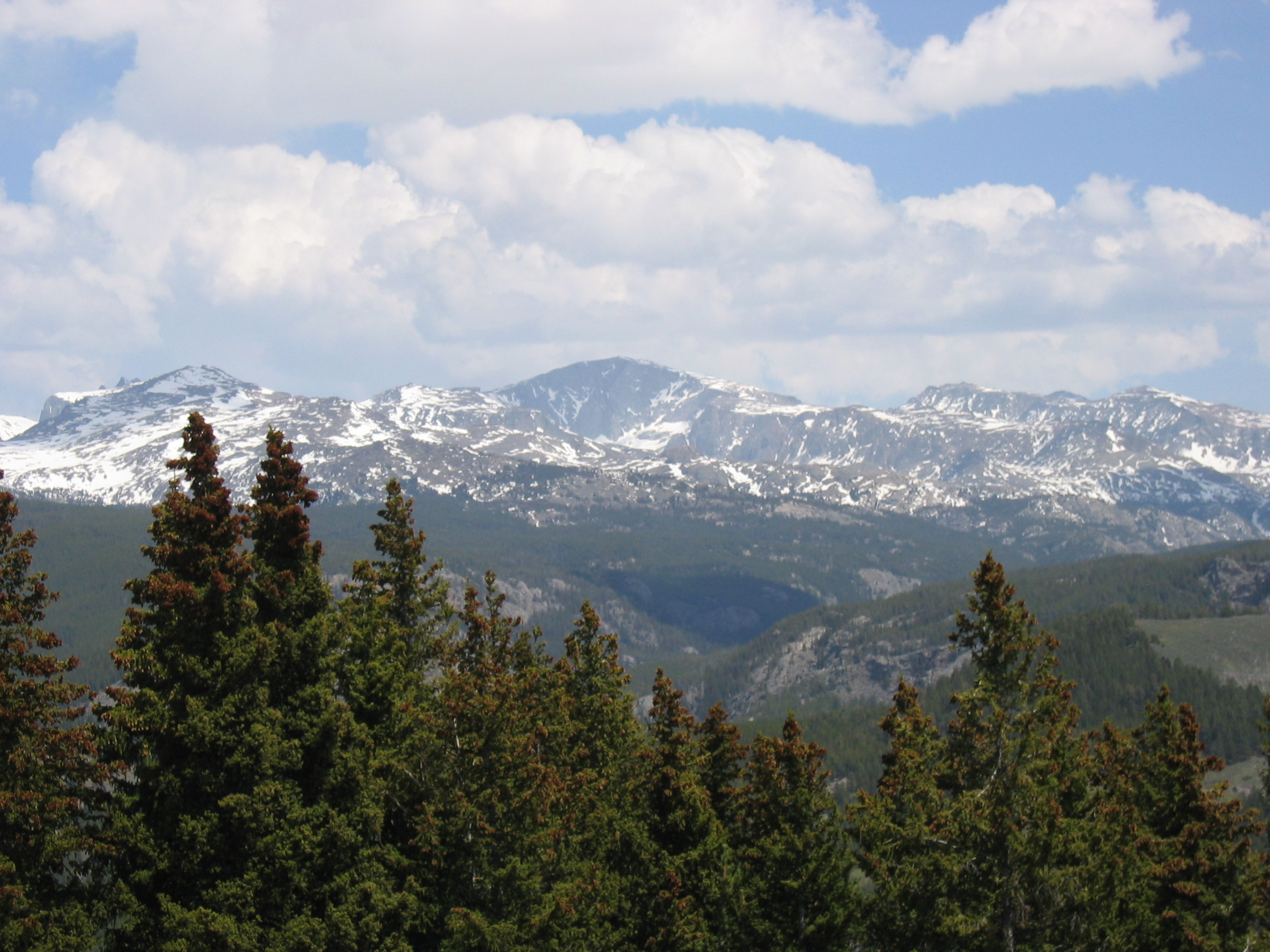 The Big Horns - Cloud Peak, as viewed from Freezout.